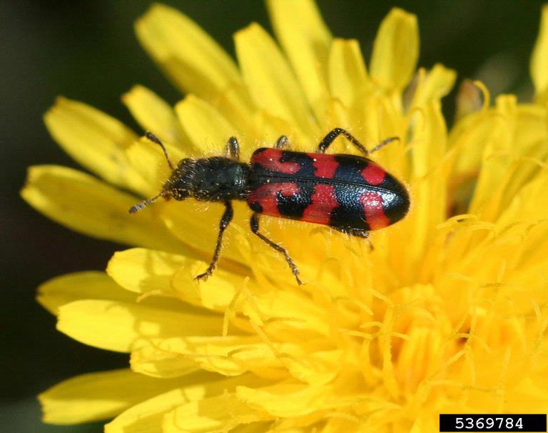 Trichodes ornatus Say, 1823 on a flower